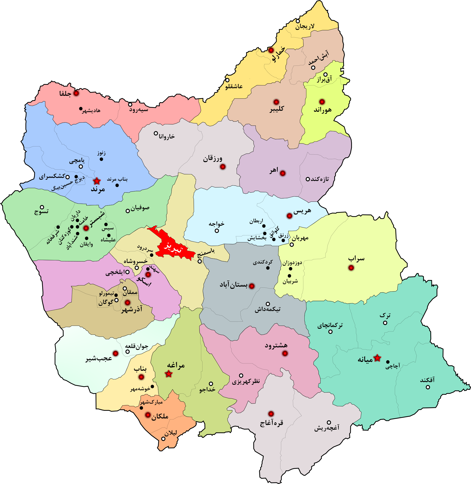 East Azerbaijan Cities and Towns